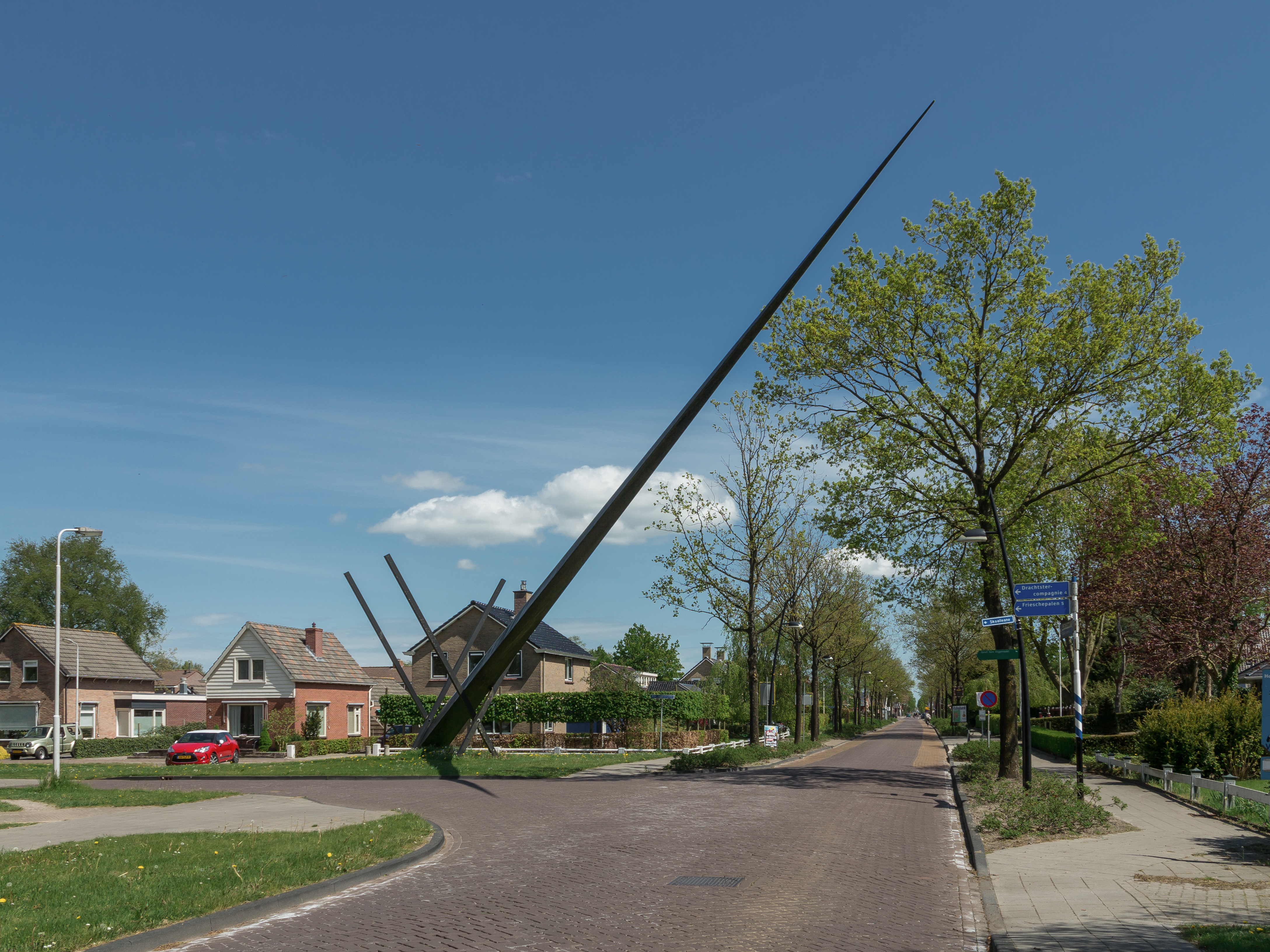 Ureterp, plastic art in the street